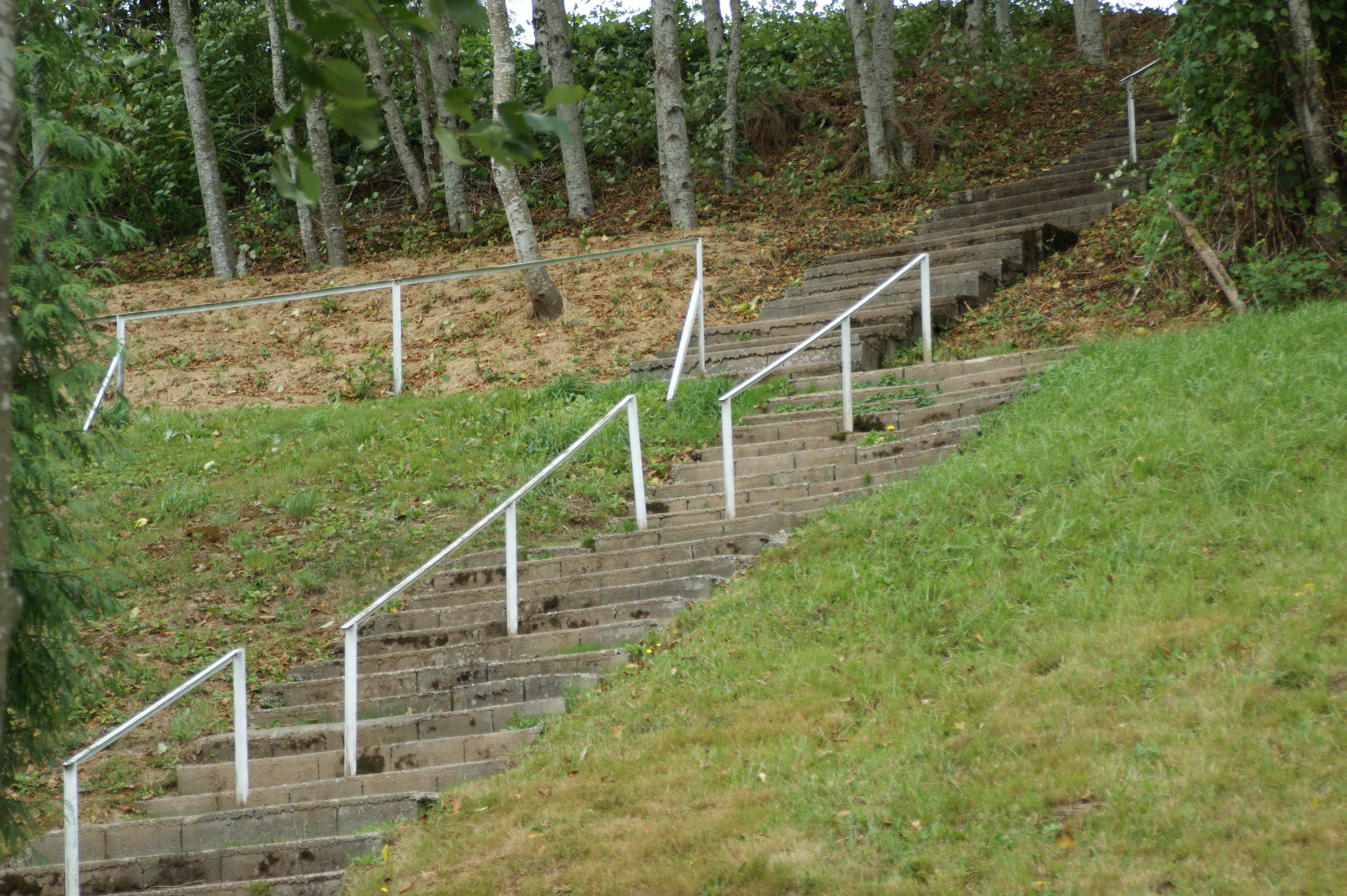 Old grandstand stairs still standing at the disused Langley Speedway